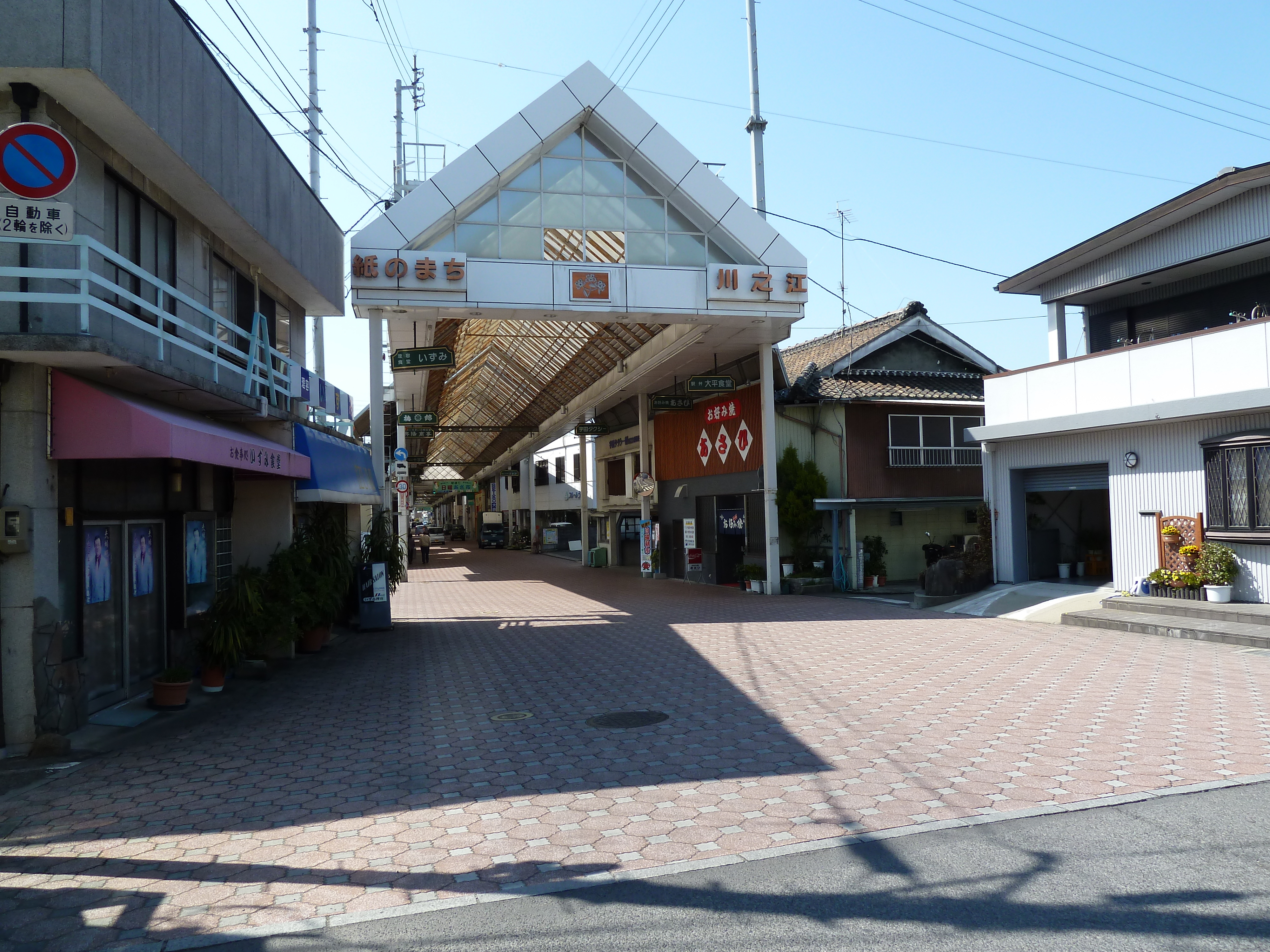 Shopping arcade in front of Kawanoe Station